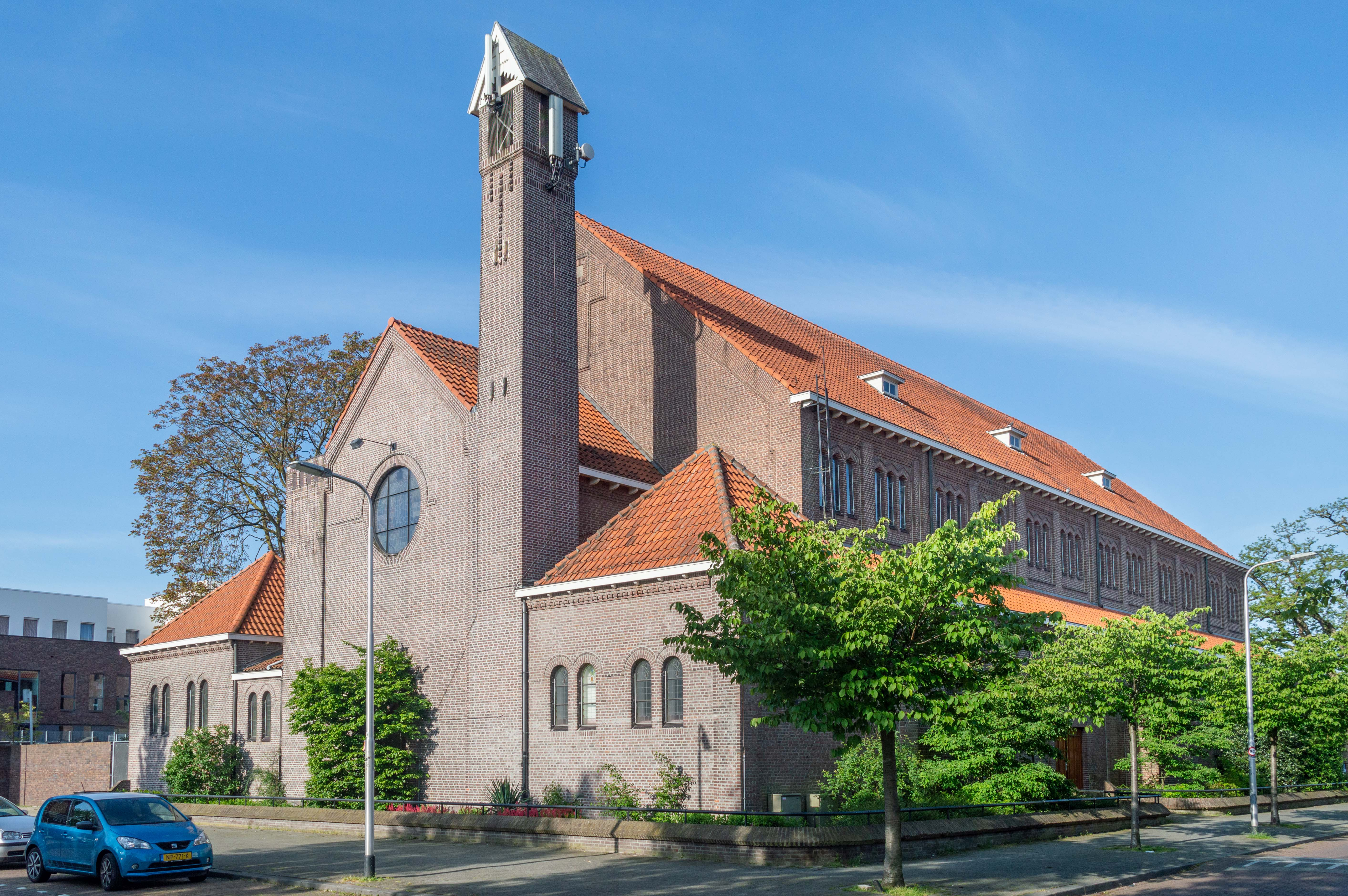 The back and side (east and north facades) of the Gerardus Majellakerk in Tilburg.